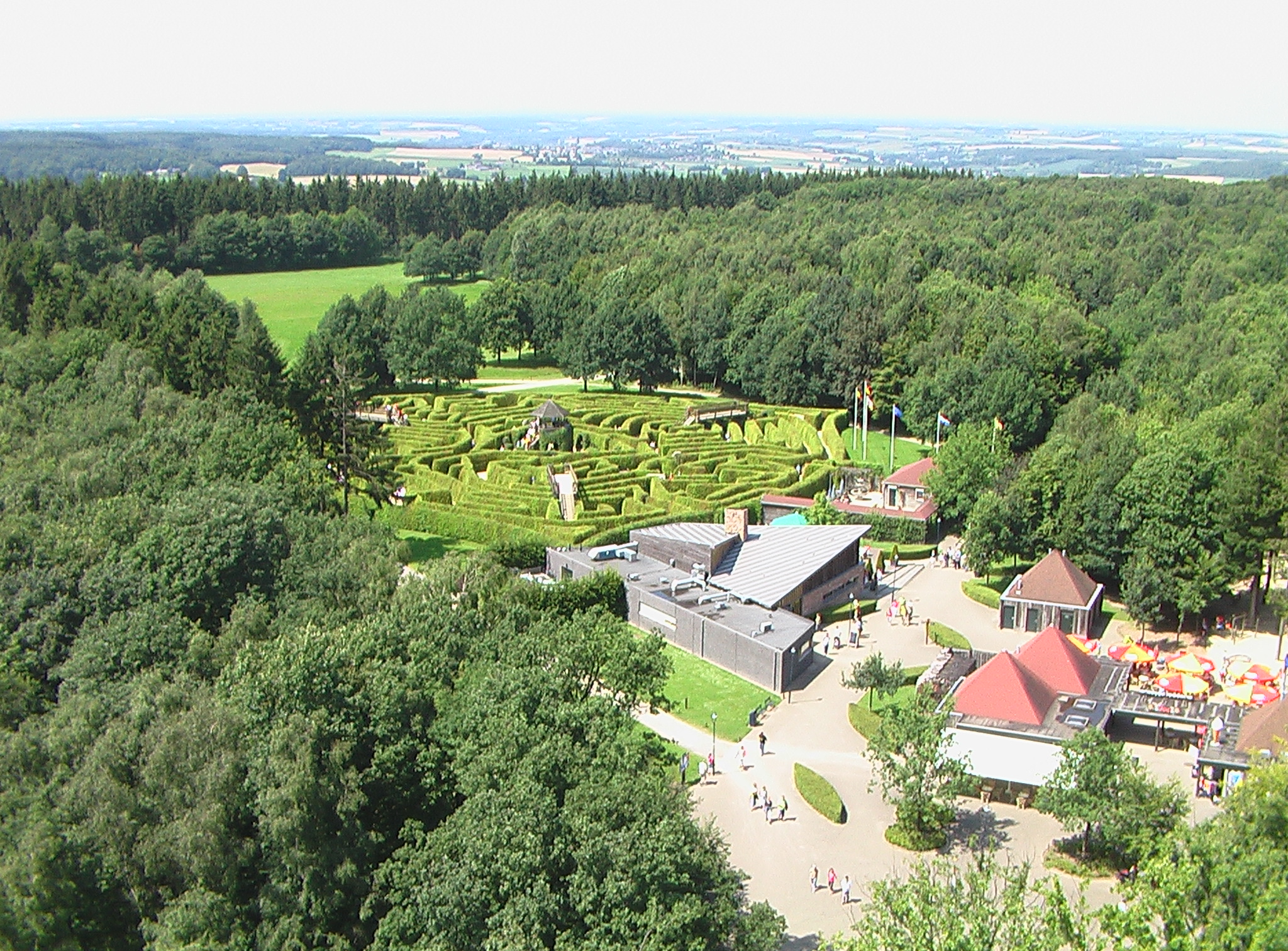 Drielandenpunt, with in the right the "Labyrinth Drielandenpunt". Picture from the Boudenwijntoren.